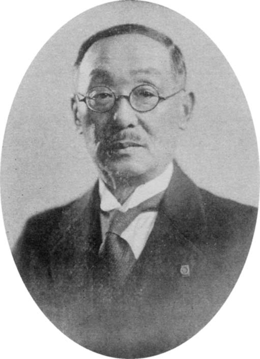 Wataru Totoki, 10th director of the Fifth Higher School.